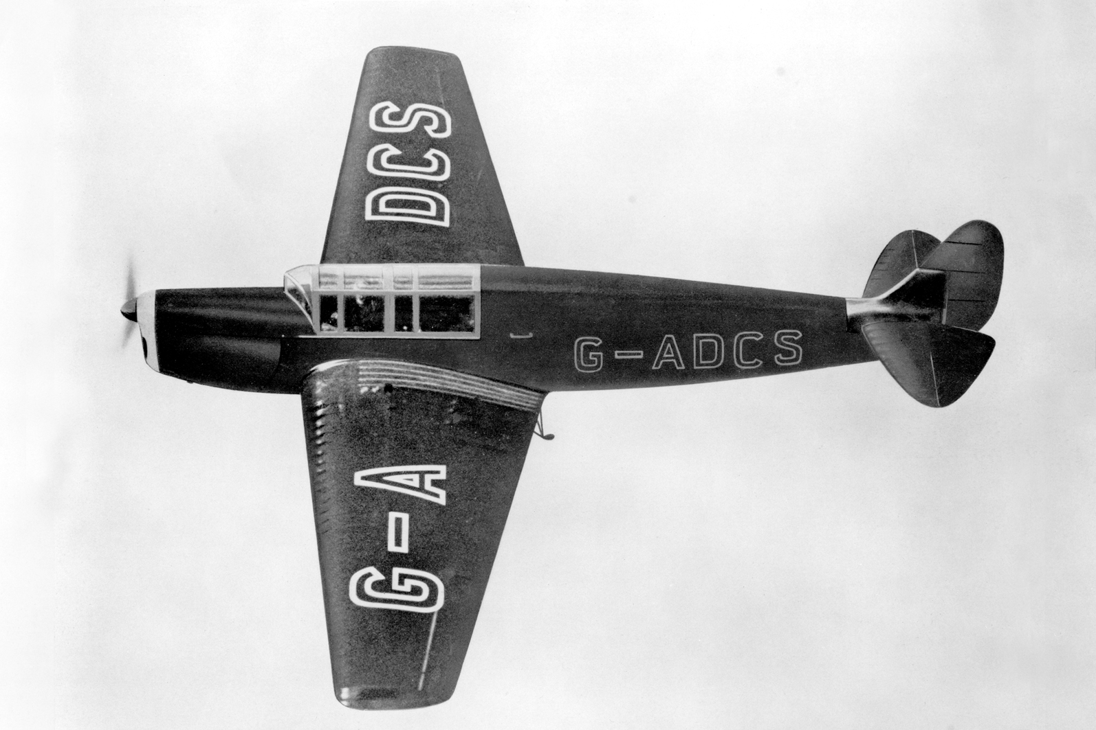 Martin-Baker MB1 prototype during its flight tests.